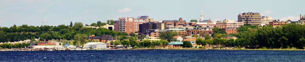 Looking across the bay - Burlington, VT